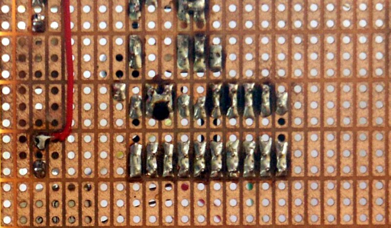 TriPad stripboard. Note that the tracks are broken into three-hole segments.